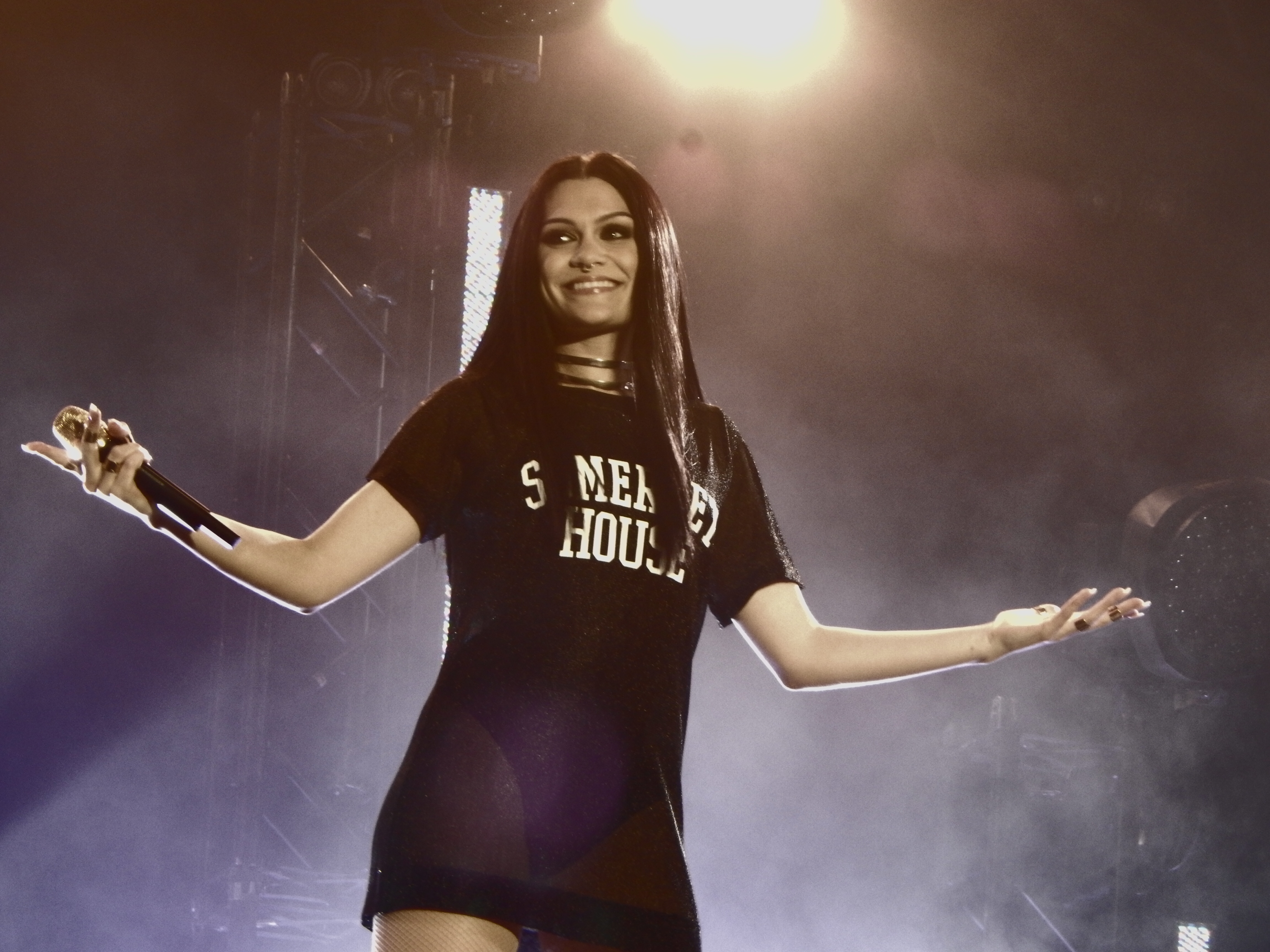 Jessie J performing at Somerset House, London in 2015